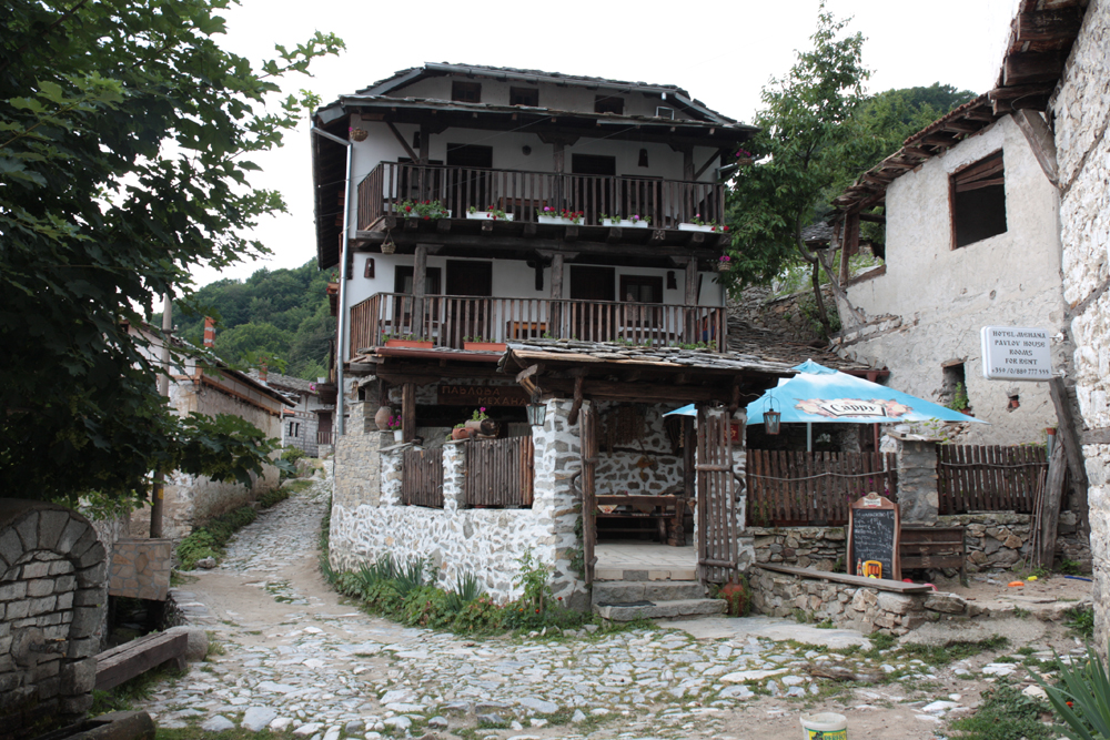 Pavlov house in Delchevo (19th century), Bulgaria, now a hotel